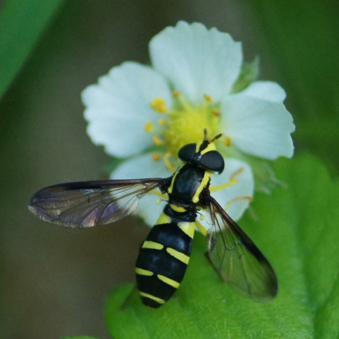 Xanthogramma pedissequum (female). Picture taken i Skåne, Sweden.